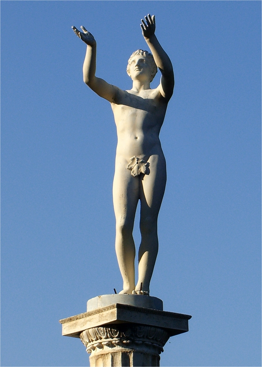 „Adorant“ - copy of an antique sculpture in Neustrelitz